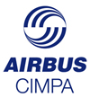 logo CIMPA S.A.S.